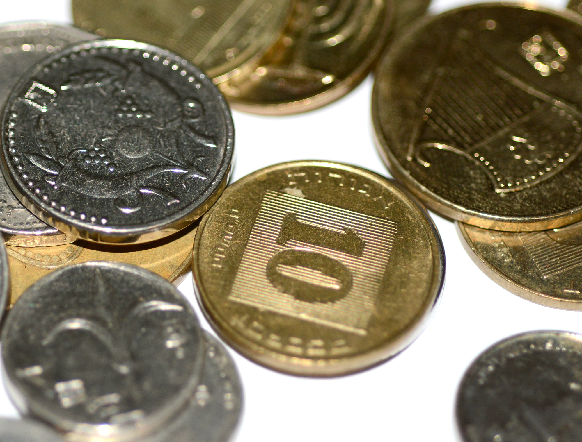 10 Agorot coin - Israeli Currency - Money and Coins - Scattered coins